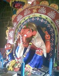 mahaganapati1